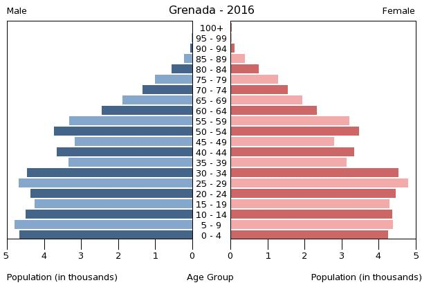 The population pyramid of Grenada illustrates the age and sex structure of population and may provide insights about political and social stability, as well as economic development. The population is distributed along the horizontal axis, with males shown on the left and females on the right. The male and female populations are broken down into 5-year age groups represented as horizontal bars along the vertical axis, with the youngest age groups at the bottom and the oldest at the top. The shape of the population pyramid gradually evolves over time based on fertility, mortality, and international migration trends.